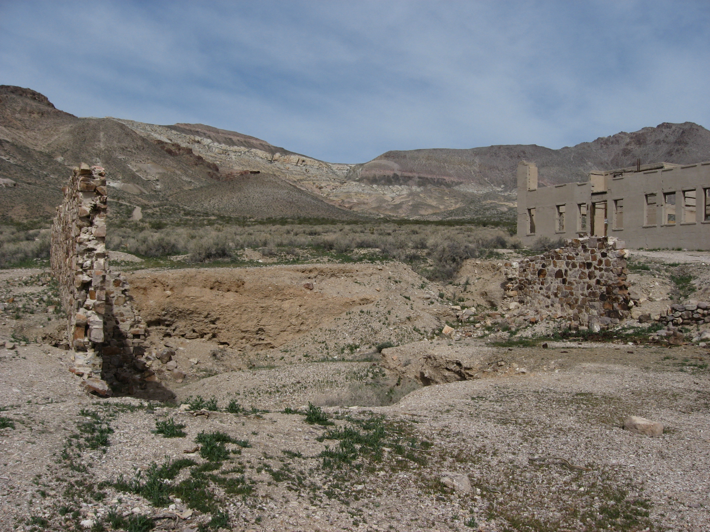 ruins at Rhyolite, Nevada